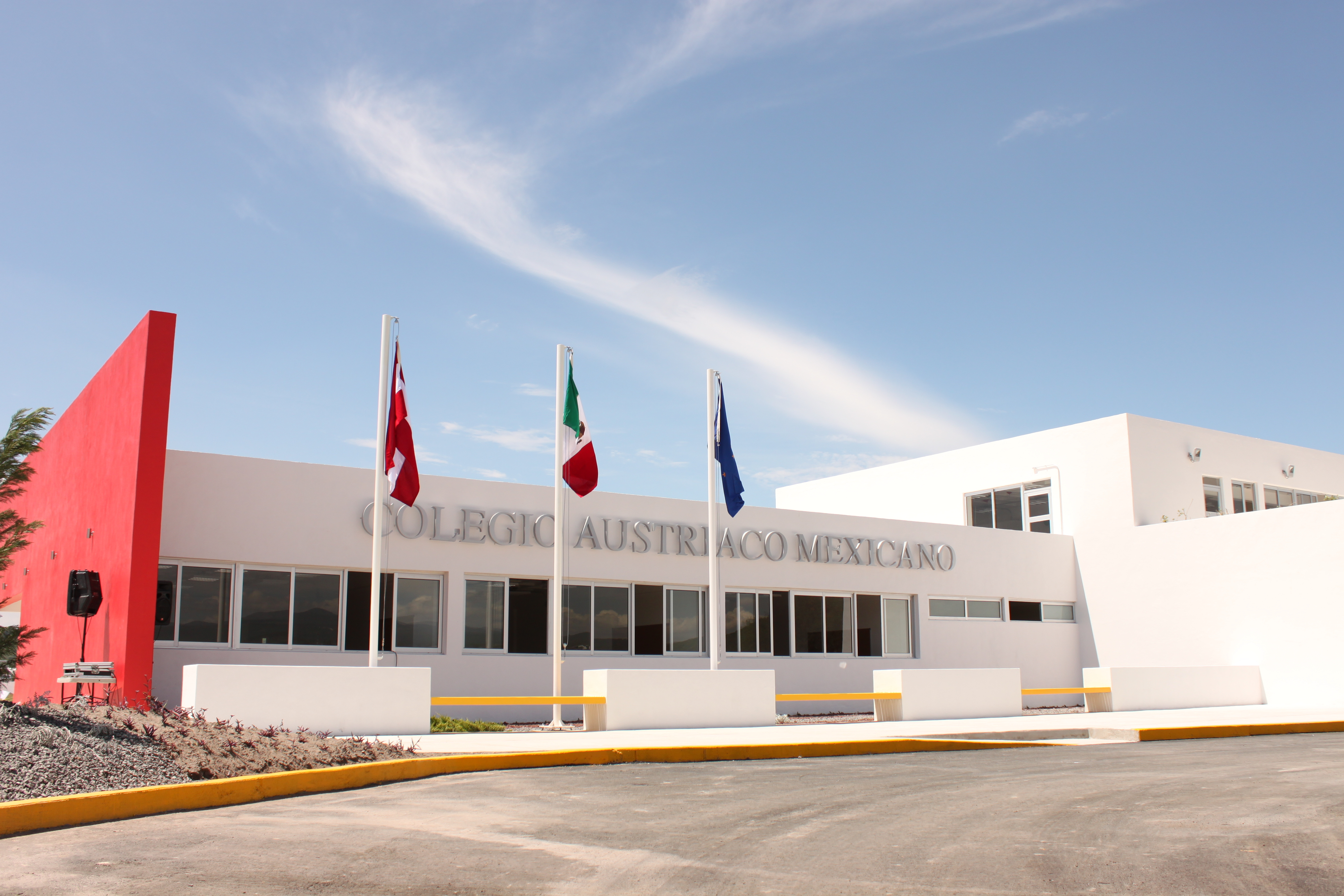 The Austrian School in Querétaro, Mexico